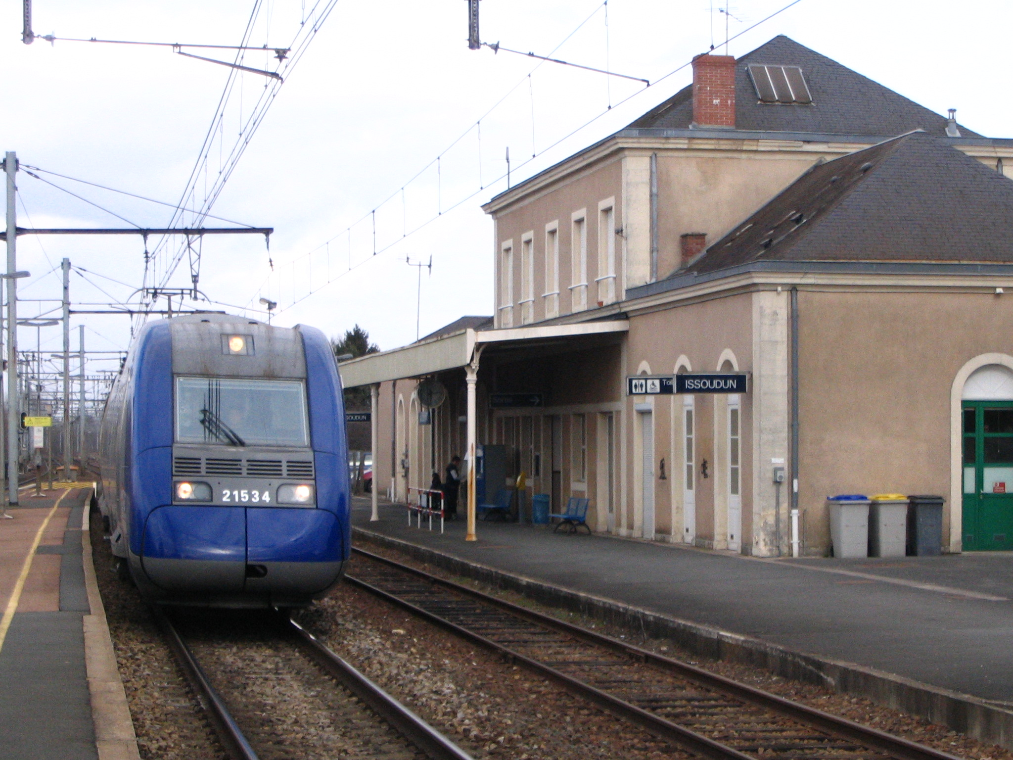 The train station of Issoudun, Indre, France.